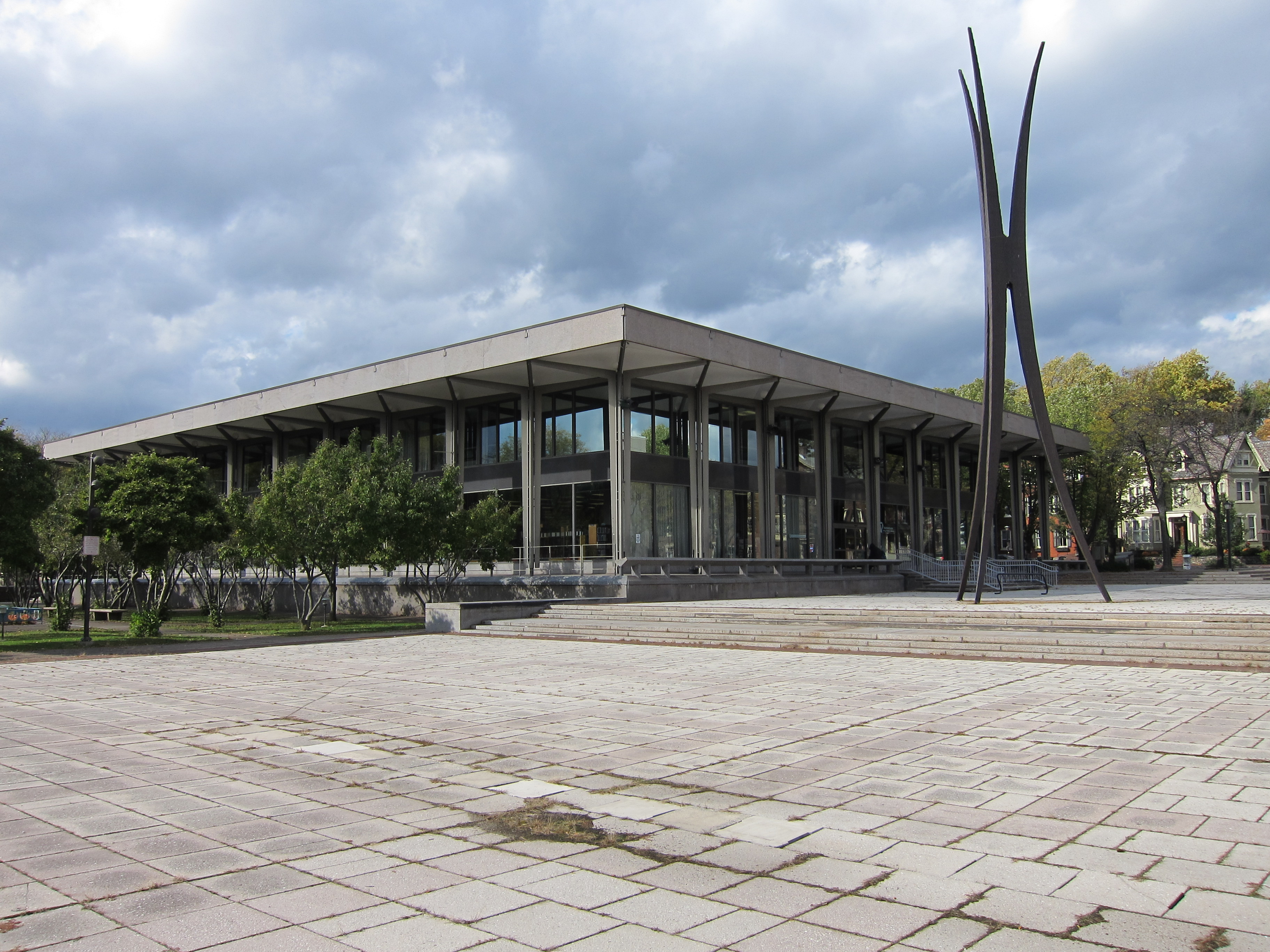 A view of the Bethlehem Area Public Library in Bethlehem, Pennsylvania